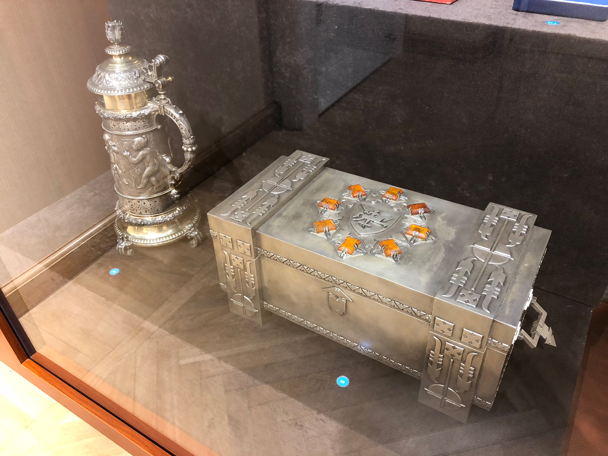 EuroBasket Women 1938 prize (left) that was gifted to the European vice-champions Lithuania women's national basketball team. EuroBasket 1939 presidential prize (right) - a silver chest decorated with ambers. It was established by the Lithuanian President Antanas Smetona and was gifted to the Lithuania men's national basketball team after their victory during the championship. Both of the prizes are exhibited in the Presidential Palace in Kaunas.